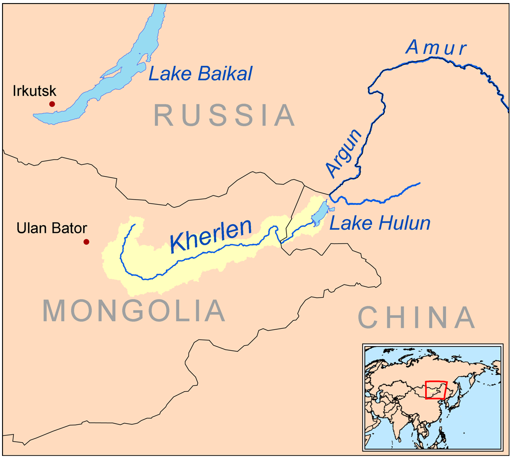 This is a map of the Kherlen River drainage basin.